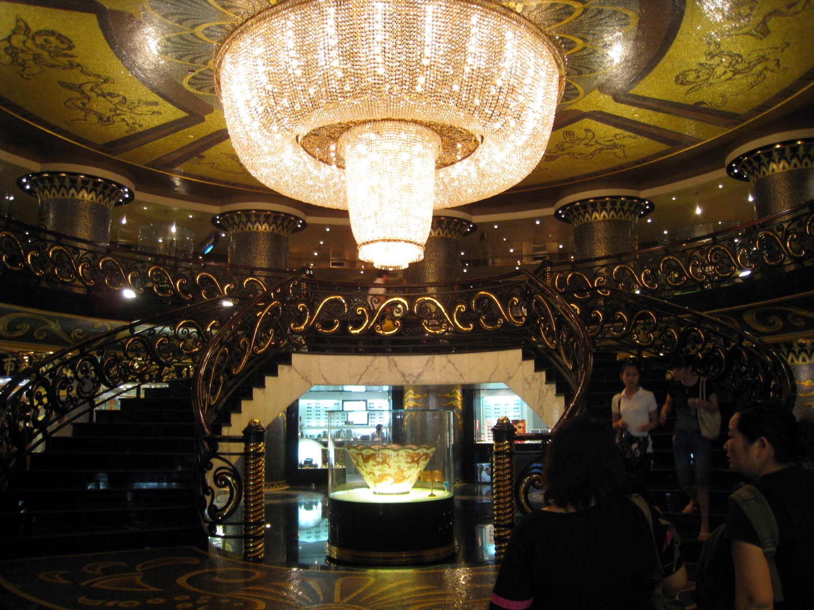 Hotel Lisboa Lobby 葡京酒店